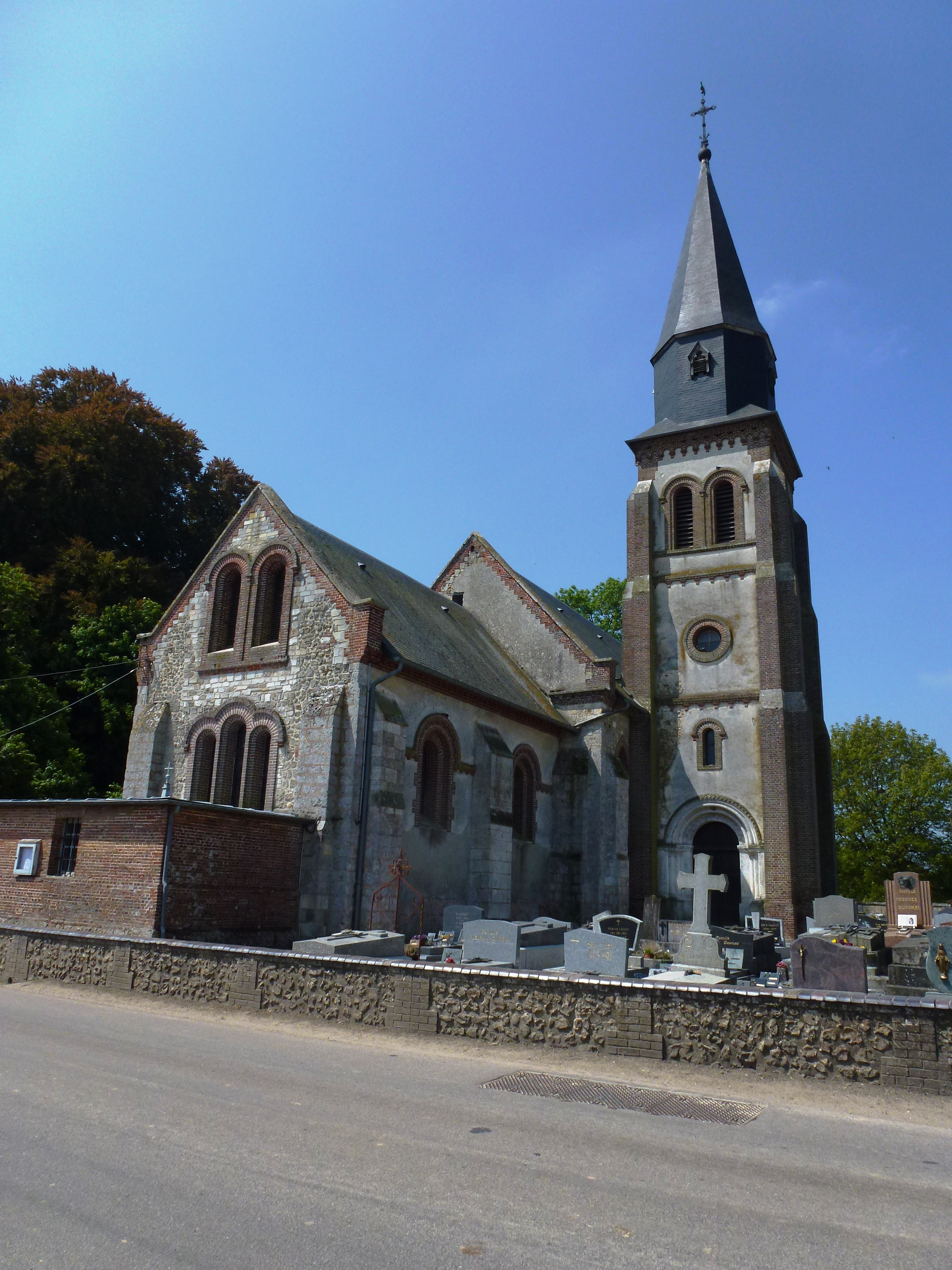 Saint-Aubin-de-Scellon (Eure-Fr) église